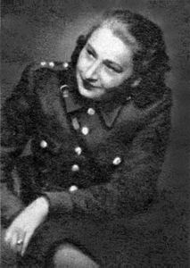 Izabela "Czajka" Stachowicz as Lieutenant of the Polish Army